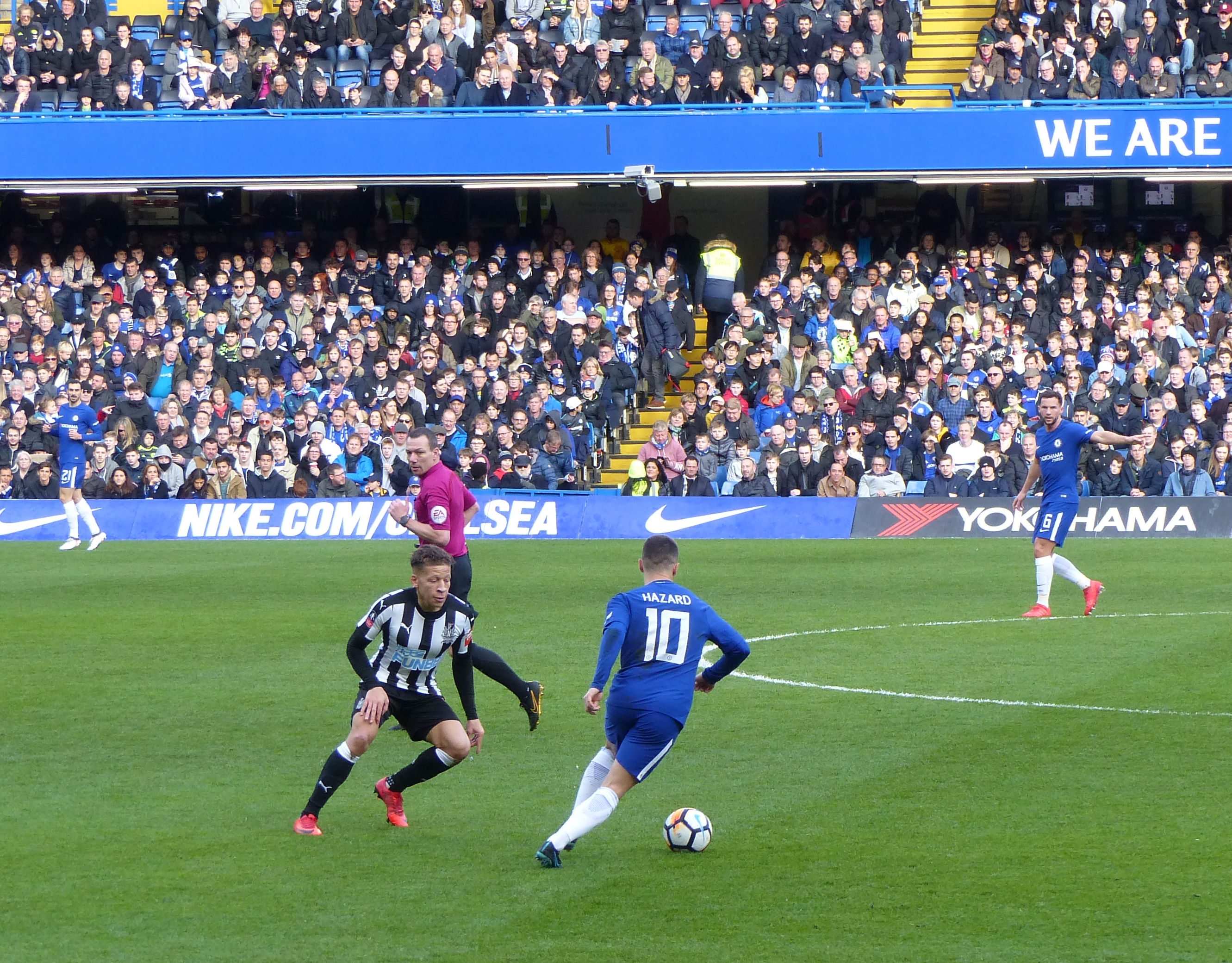 Eden Hazard in action against Newcastle FA Cup January 28th 2018